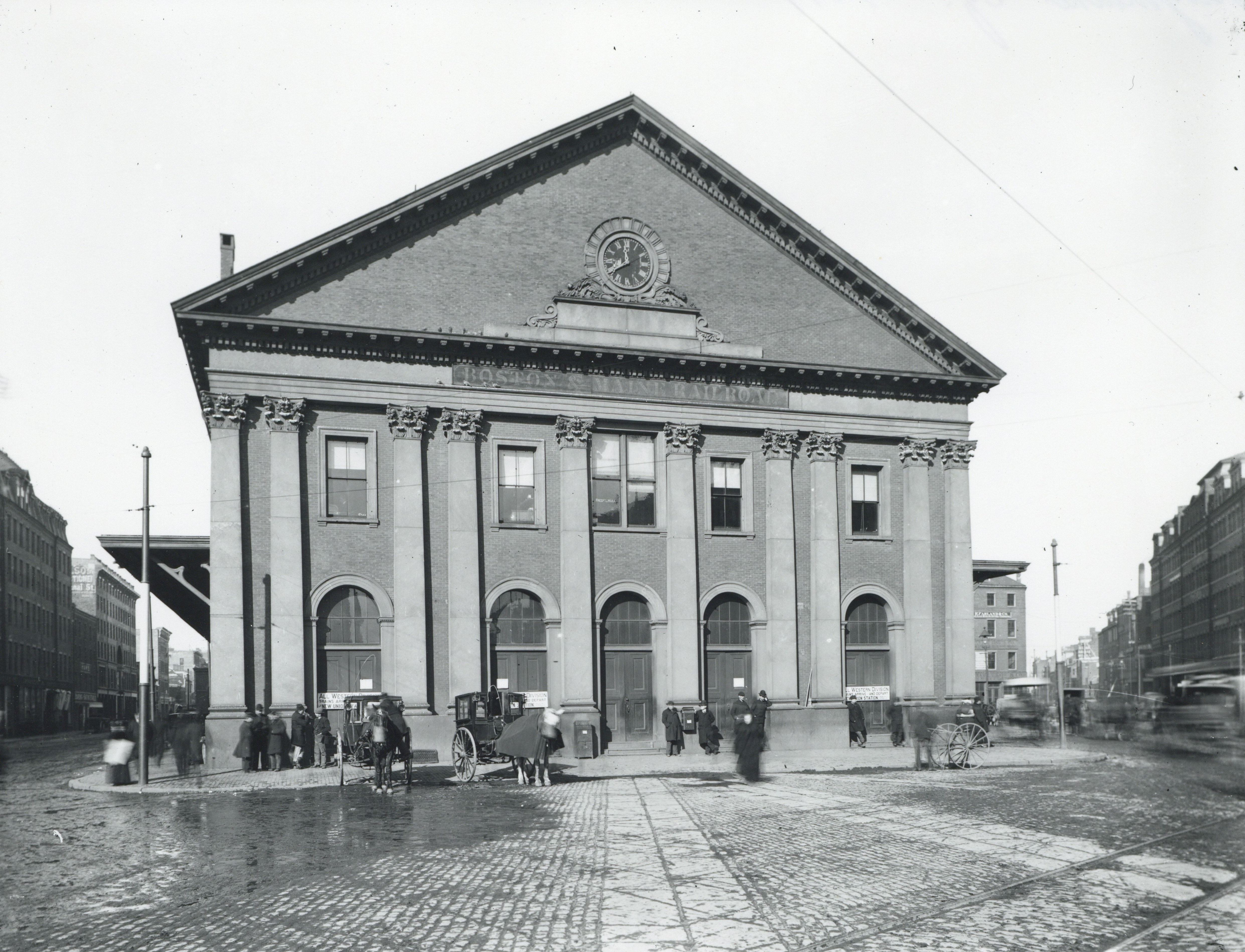 The Boston and Maine Railroad station in Haymarket Square around the time of its 1894 closure